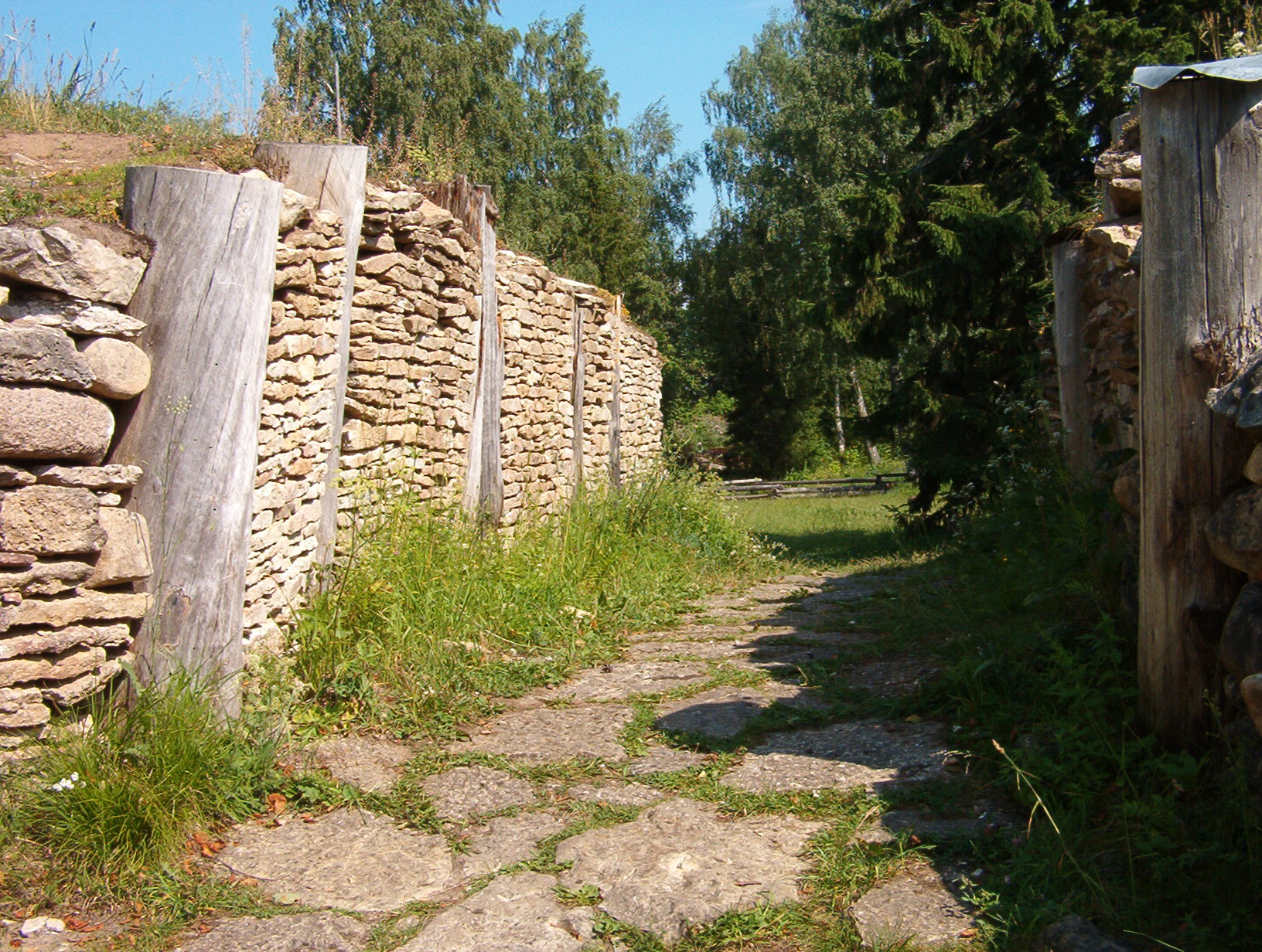 Varbola Stronghold